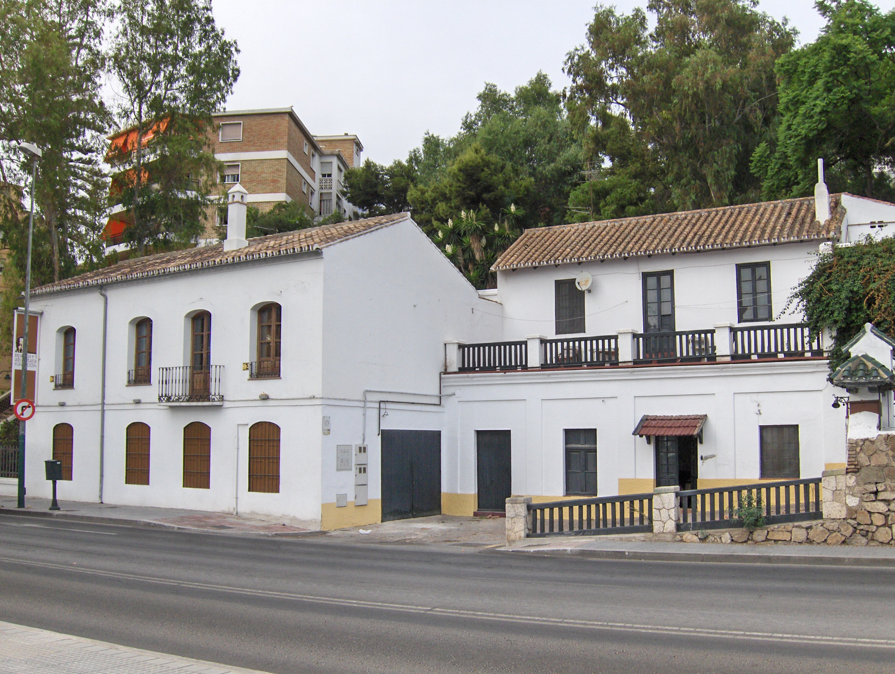 Casa de los Chumbos, sede de la Fundación Manuel Alcántara, Málaga.